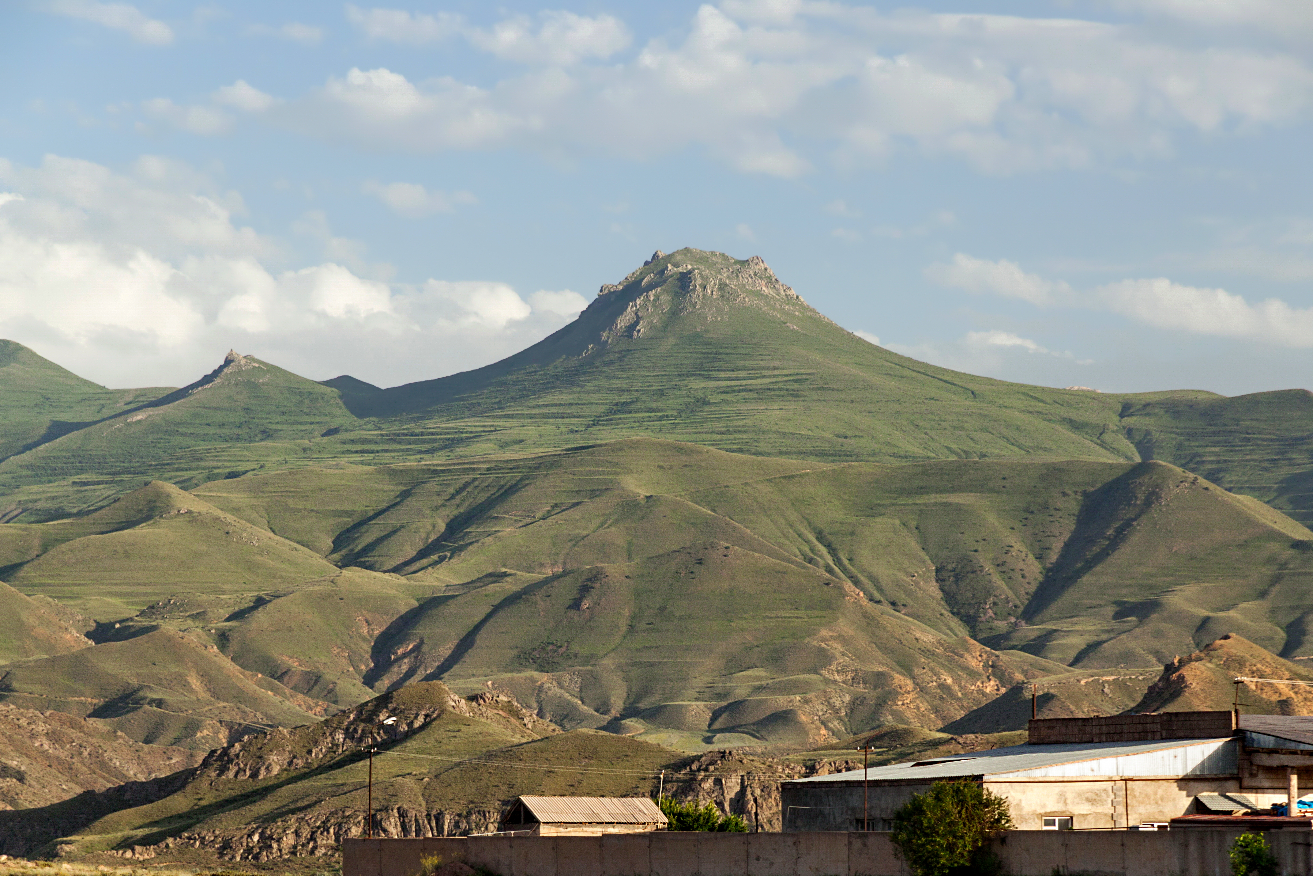 Landscapes seen from the road M2 - views of the surrounding areas. Yeghegnadzor, Vayots Dzor Province, Armenia.